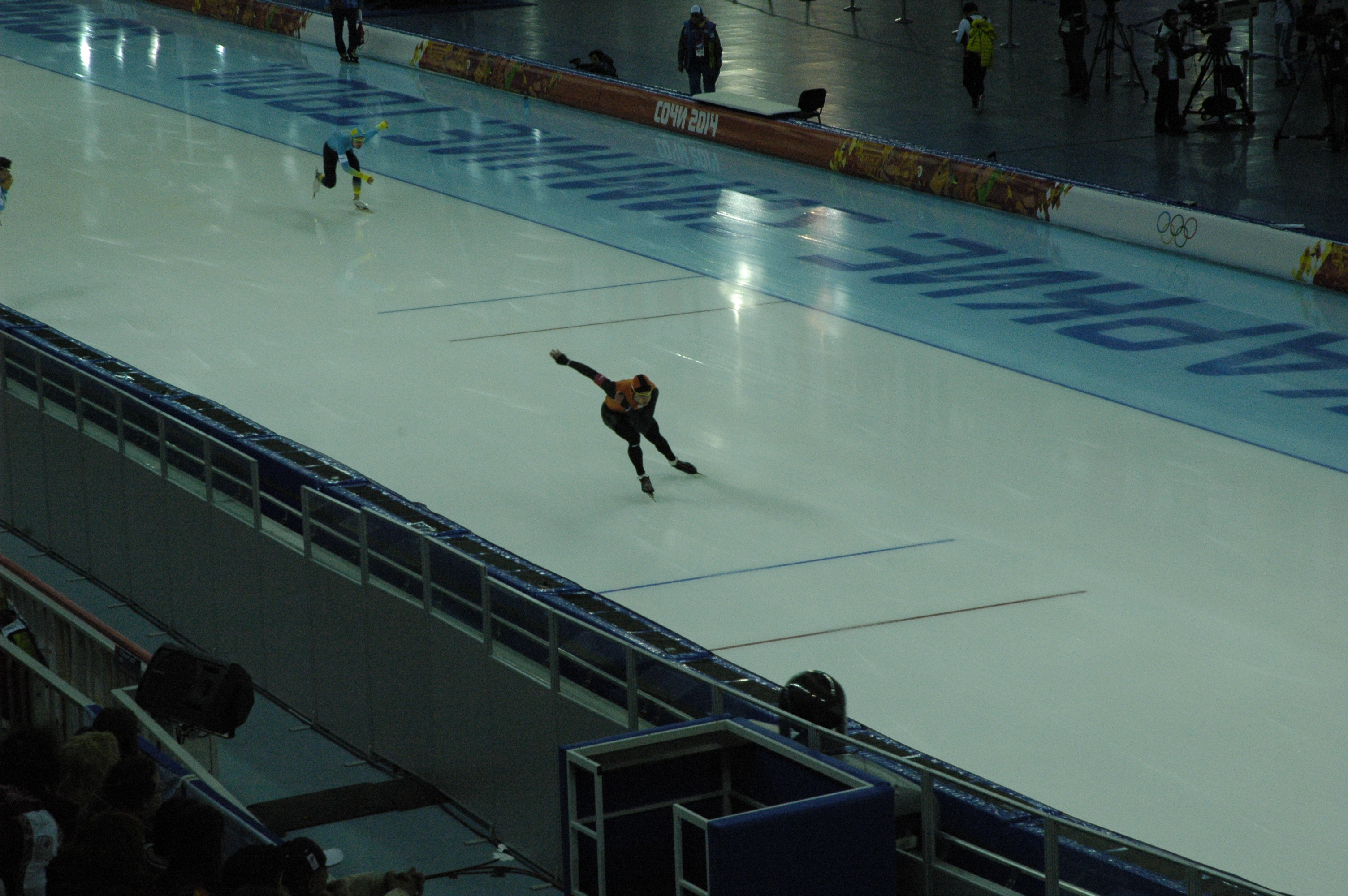 Men's 1500m, 2014 Winter Olympics, Stefan Groothuis & Aleksandr Zhigin